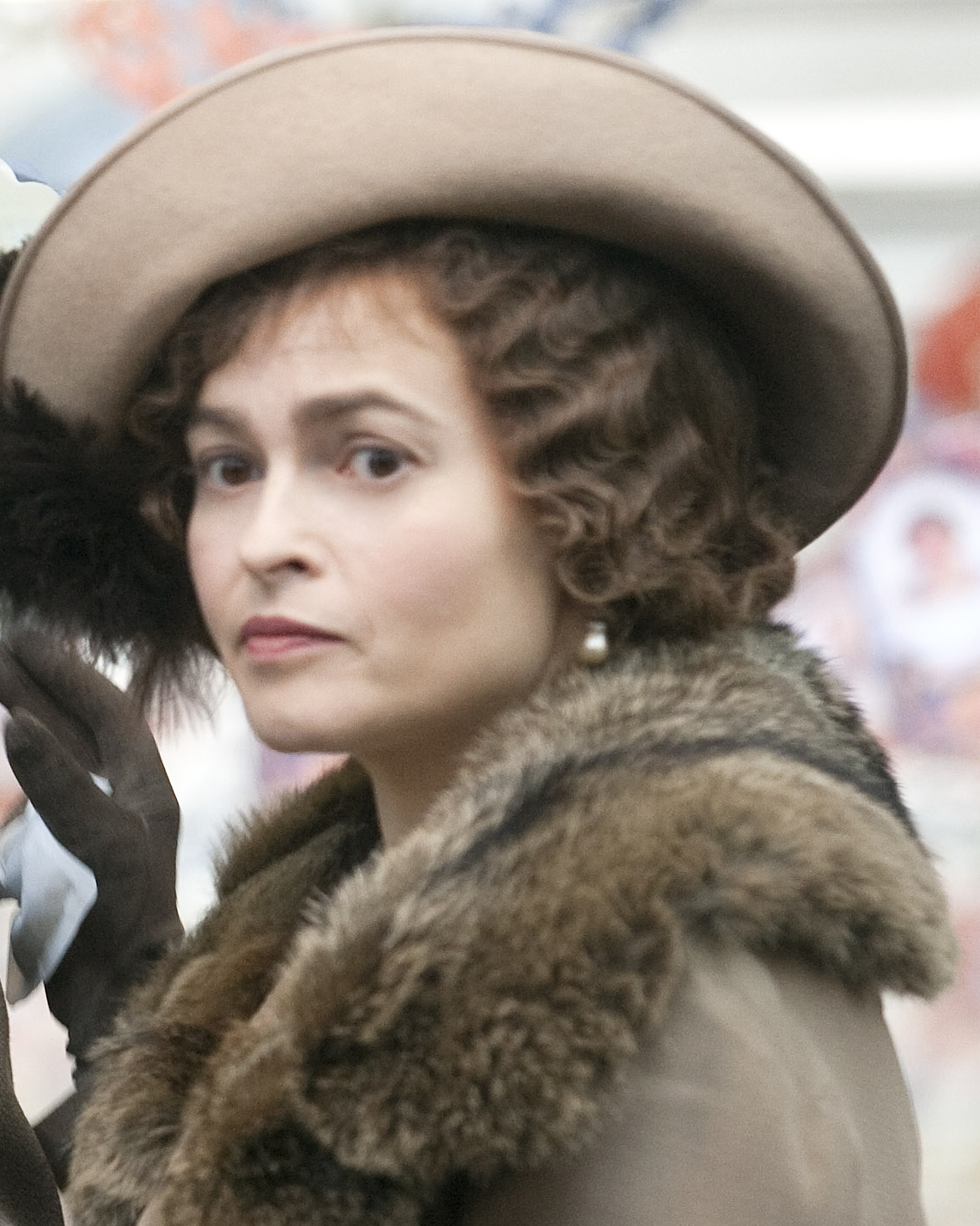 Colin Firth and Helena Bonham Carter filming The King's Speech at Queen Street Mill Textile Museum.